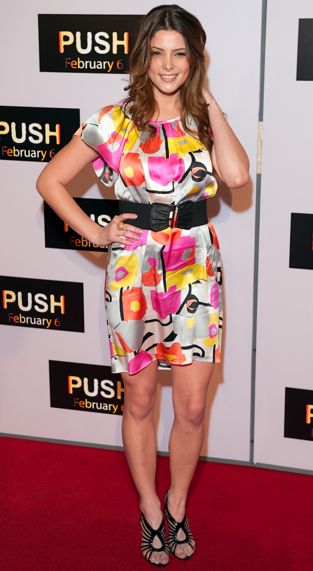 LOS ANGELES - JANUARY 29, 2009: Actress Ashley Greene arrives at the premiere of "Push", Mann Theater, Westwood.